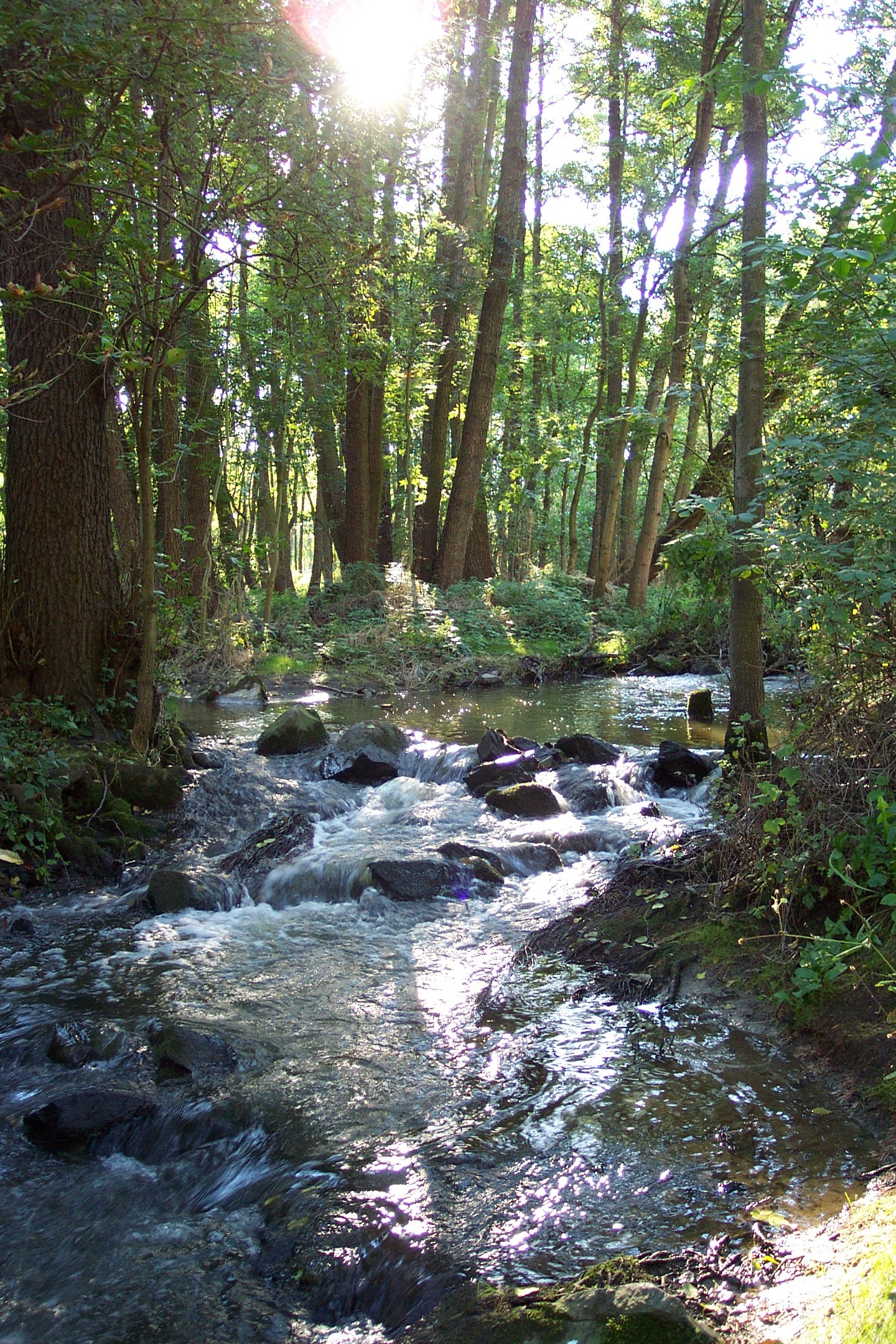 Landscape and nature of Únětický potok valley near Prague